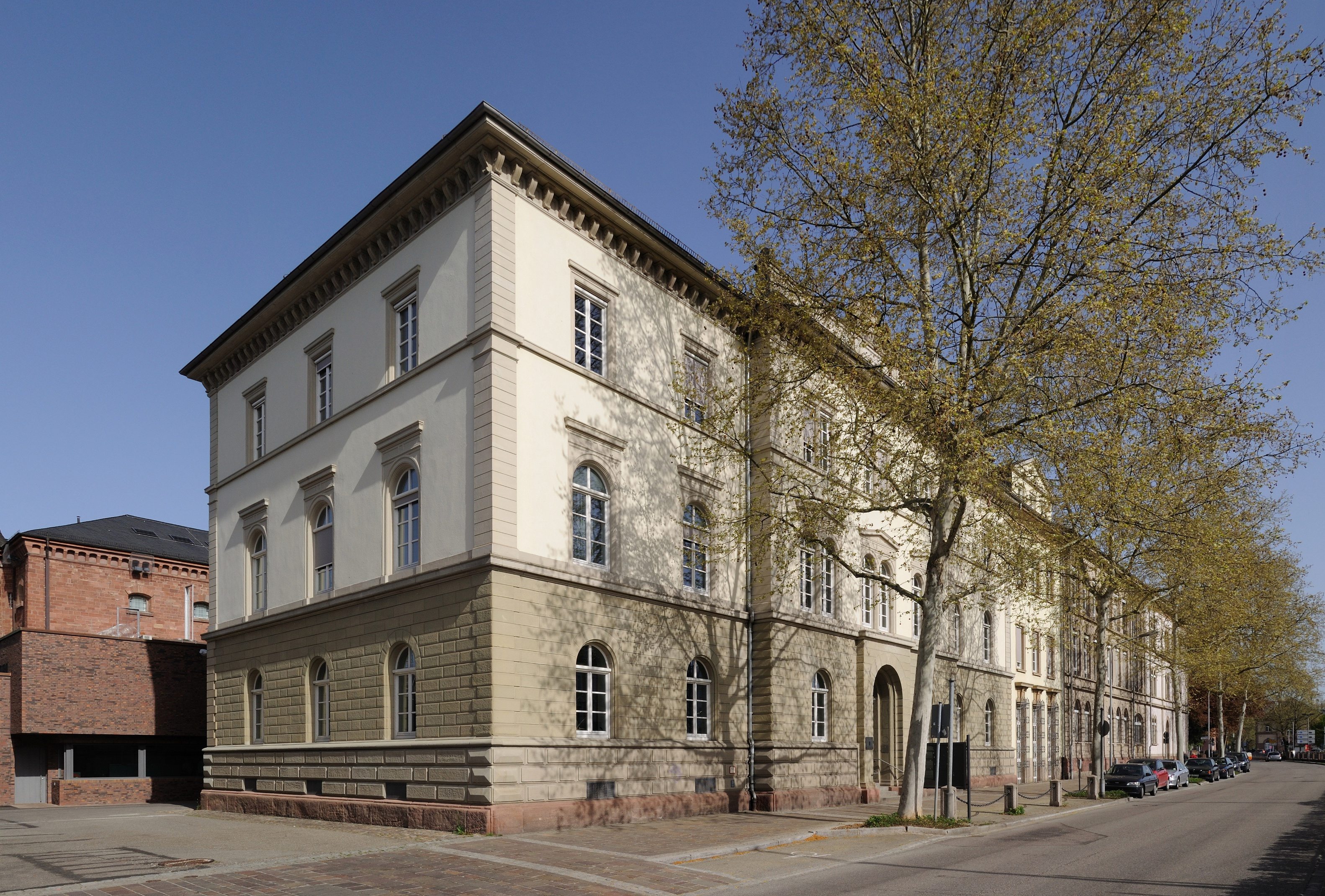 Lörrach: Local Court